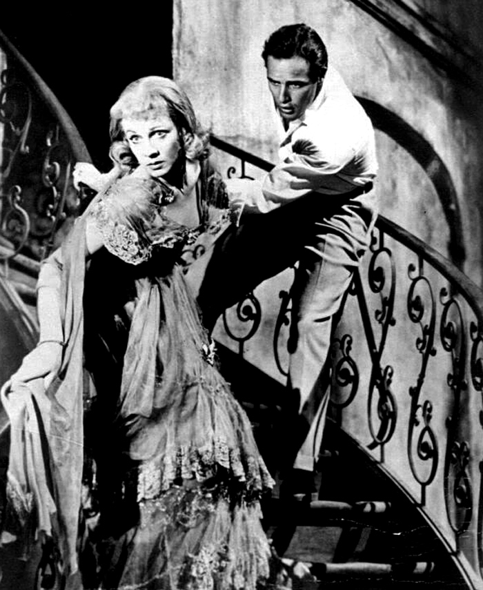 Press publicity photo of Marlon Brando and Vivien Leigh in Streetcar Named Desire, 1951